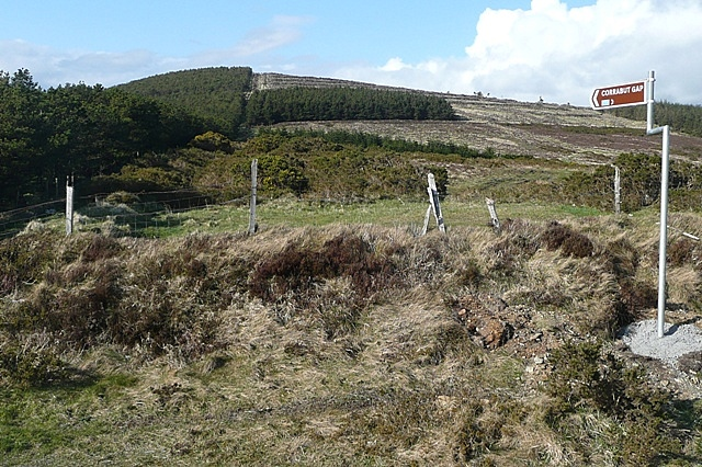 Towards Croaghaun This is taken from Corrbut Gap, a col at the north end of the Blackstairs mountains and a fine view point. A path leads towards Croaghaun, the last significant hill to the north.